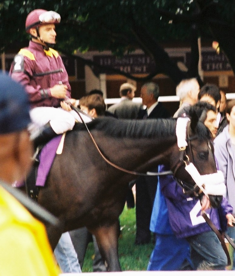 War Pass before the 2007 Breeders' Cup Juvenile at Monmouth Park